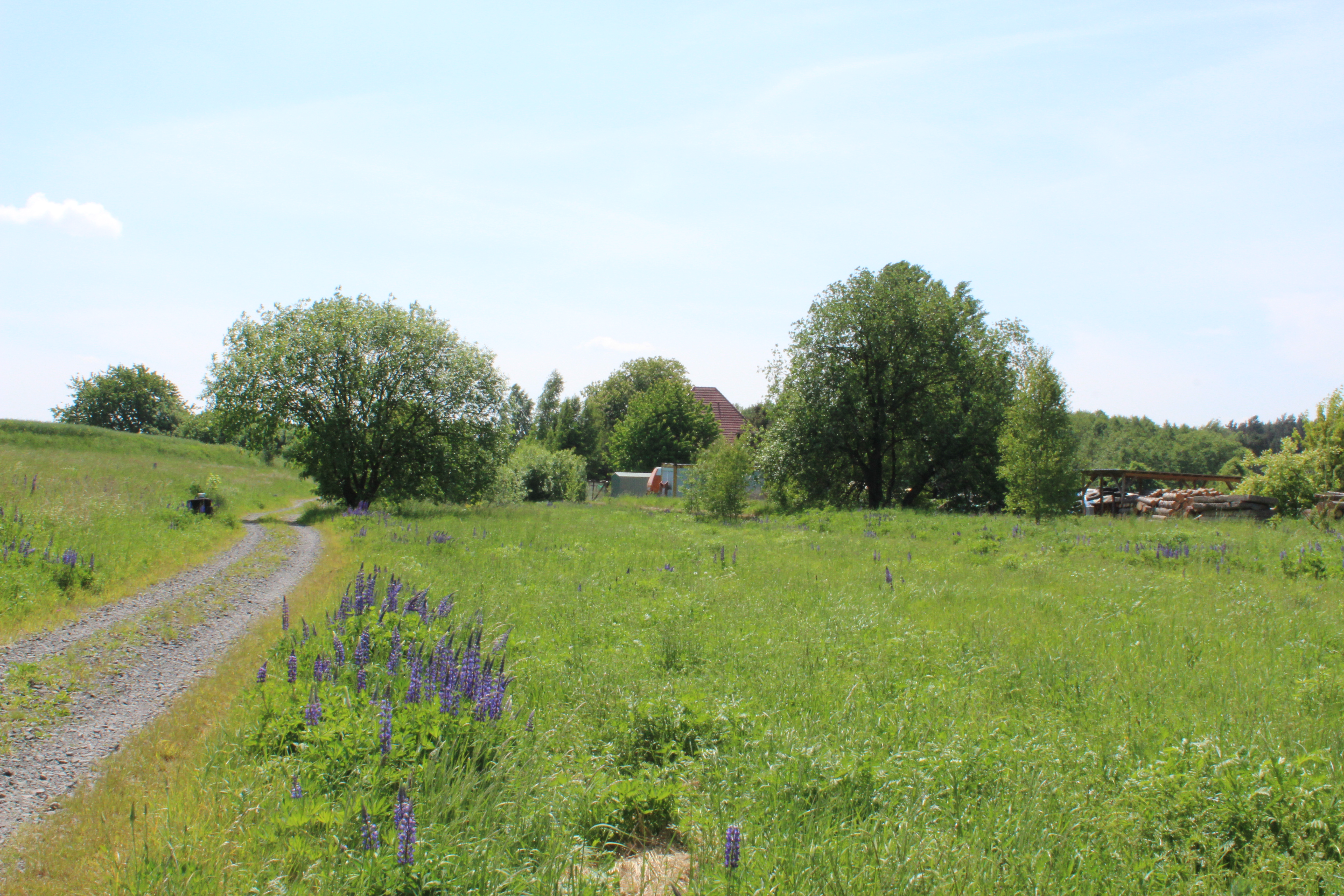 train station Lederhose